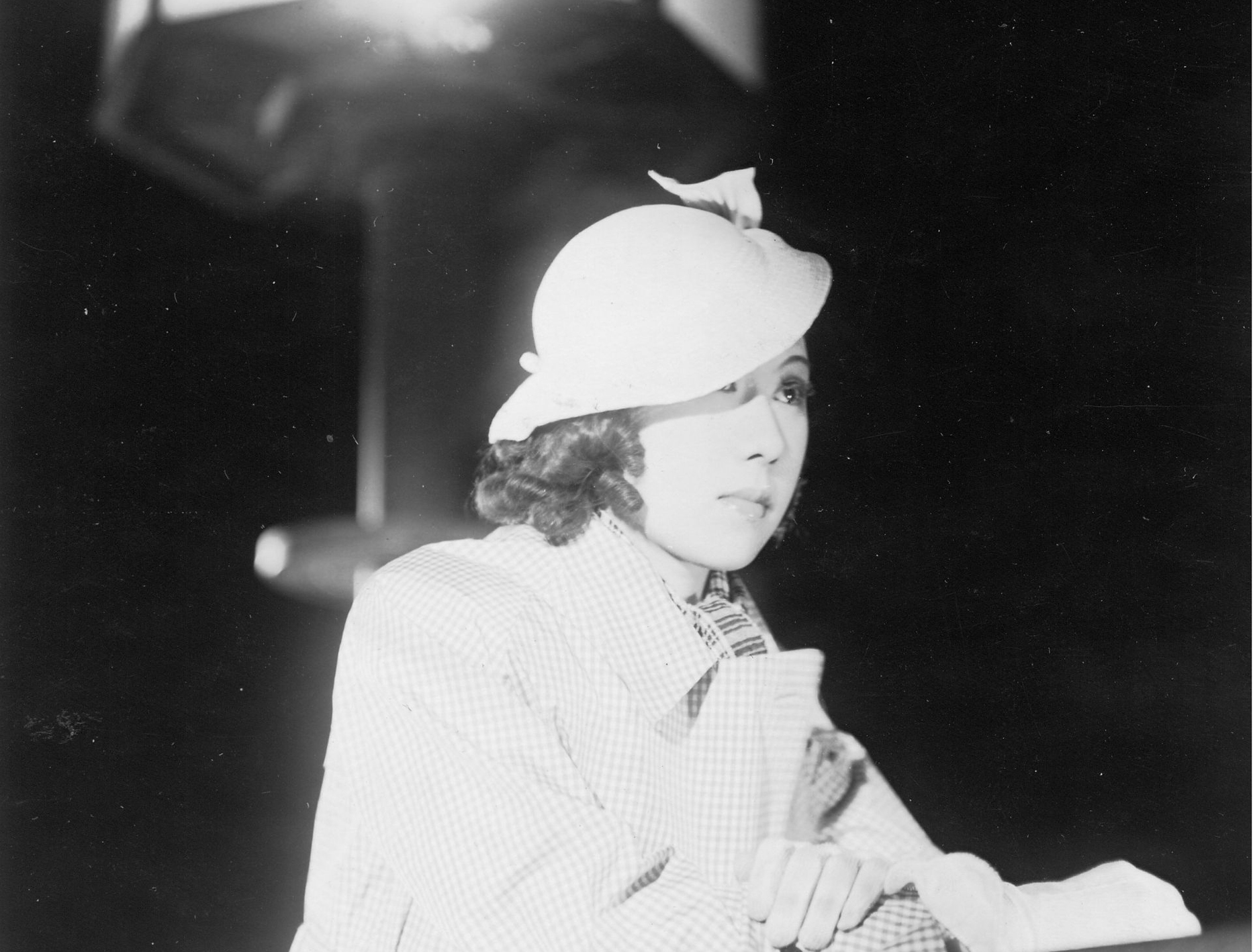 Isuzu Yamada in Naniwa erejii (浪華悲歌) directed by Kenji Mizoguchi - 1936